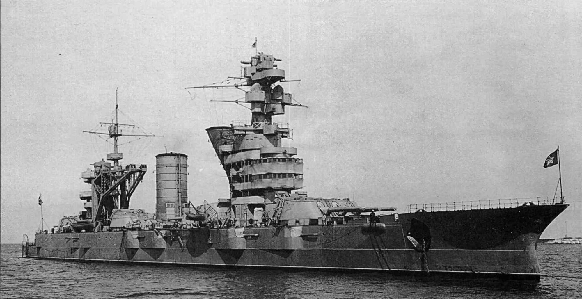 Soviet battleship Oktyabr'skaya Revolyutsiya after modernization, 1934.